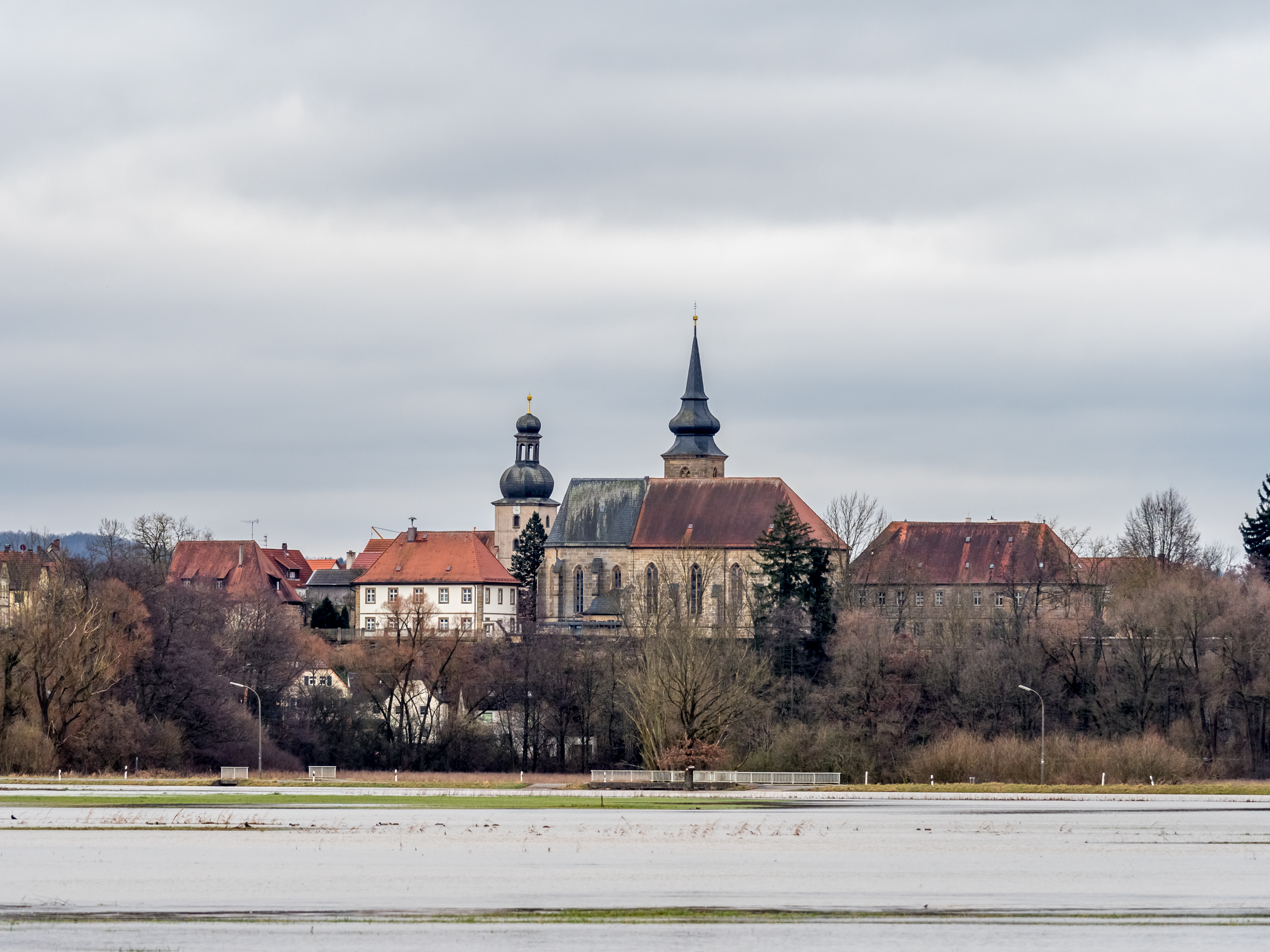 Flooded fields near the village of Rattelsdorf in the valley of the river Itz